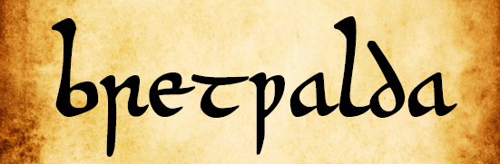 Stylized word 'bretwalda' written with minuscule.